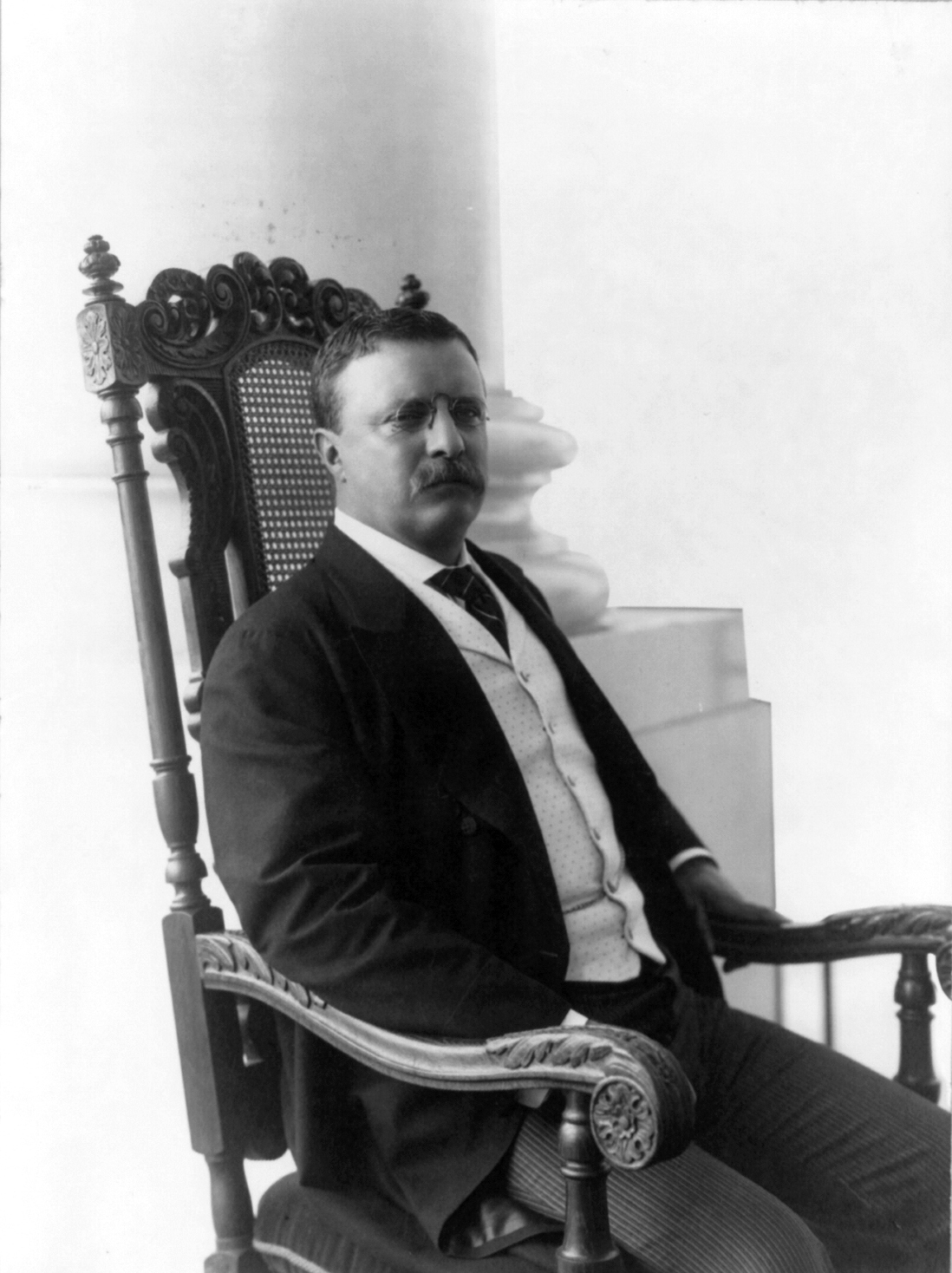 President Theodore Roosevelt seated in a State Dining Room chair on the South Porch of the White House. The chair was designed by architect Stanford White, and made by the Boston-based firm of A. H. Davenport and Company.